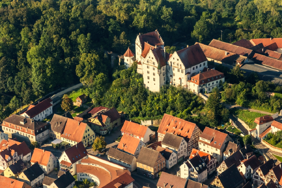 Aerial view with Scheer Castle and part of the old town of Scheer